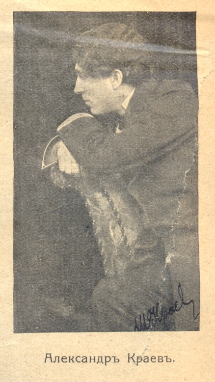 Bulgarian opera singer - a photo in a newspaper clip in the archives of Stefan Makedonski